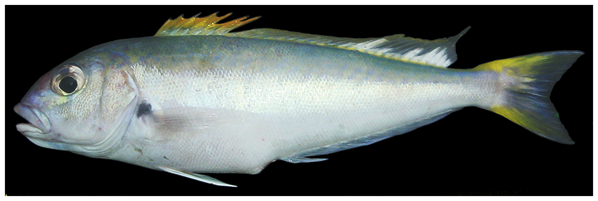 Caulolatilus cyanops Poey, 1866—blackline tilefish, 288 mm SL. Photo by W Toller.